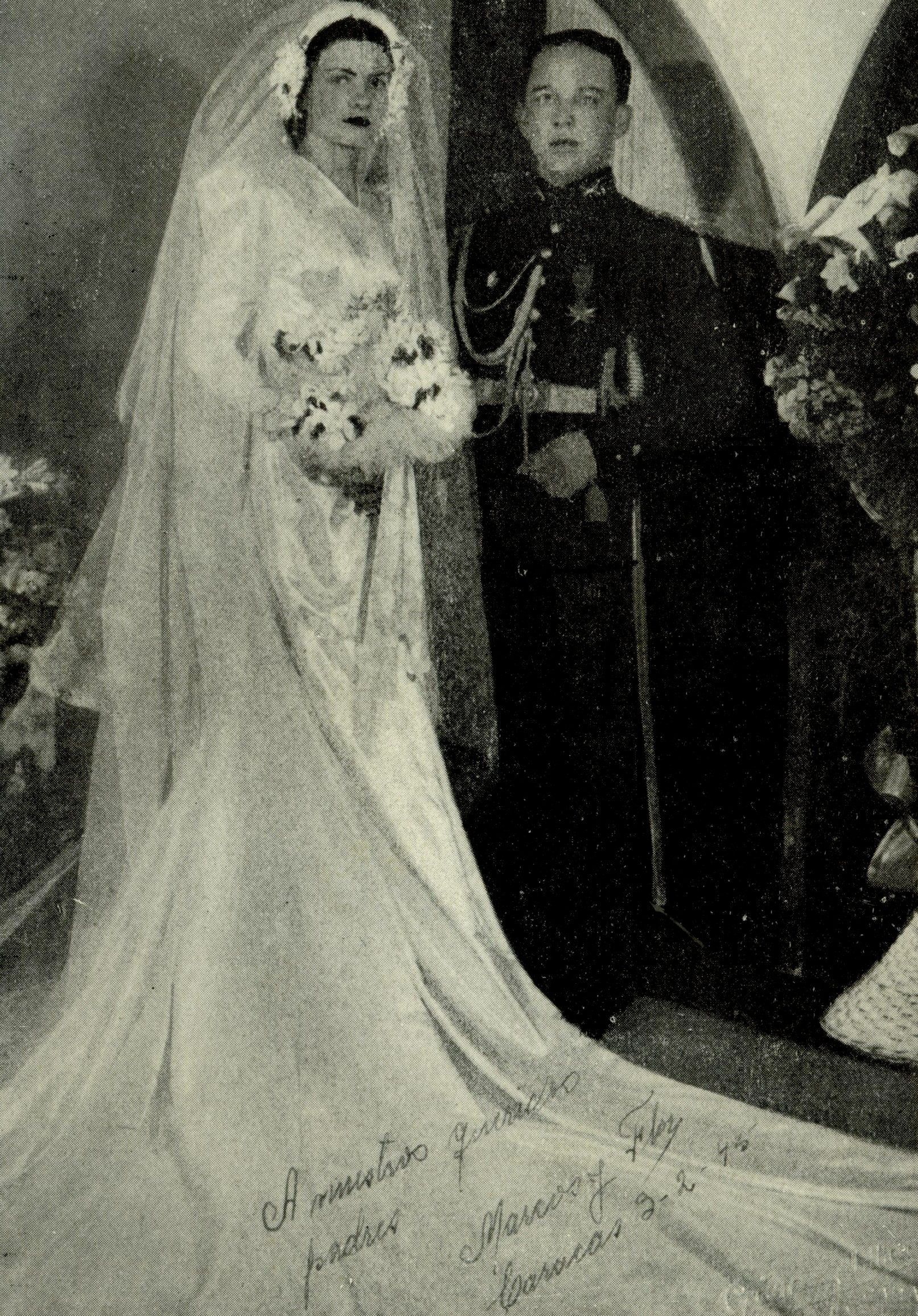 Flor Chalbaud y Marcos Pérez Jiménez el día de su boda.